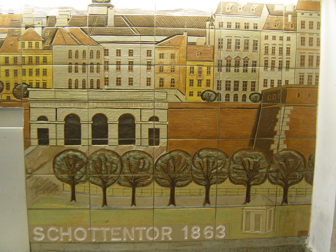 View of the Situation 1863 of the old Schottentor - Wallmosaik at the entrance of Realgymnasium Schottenbastei (Vienna, Austria) : today all buildings are demolished, except the white house (with the 12 Windows in the Background) - this is still today the Schottenhof. As well the three buildings at the right side - they are situated today still on the Mölkerbastei